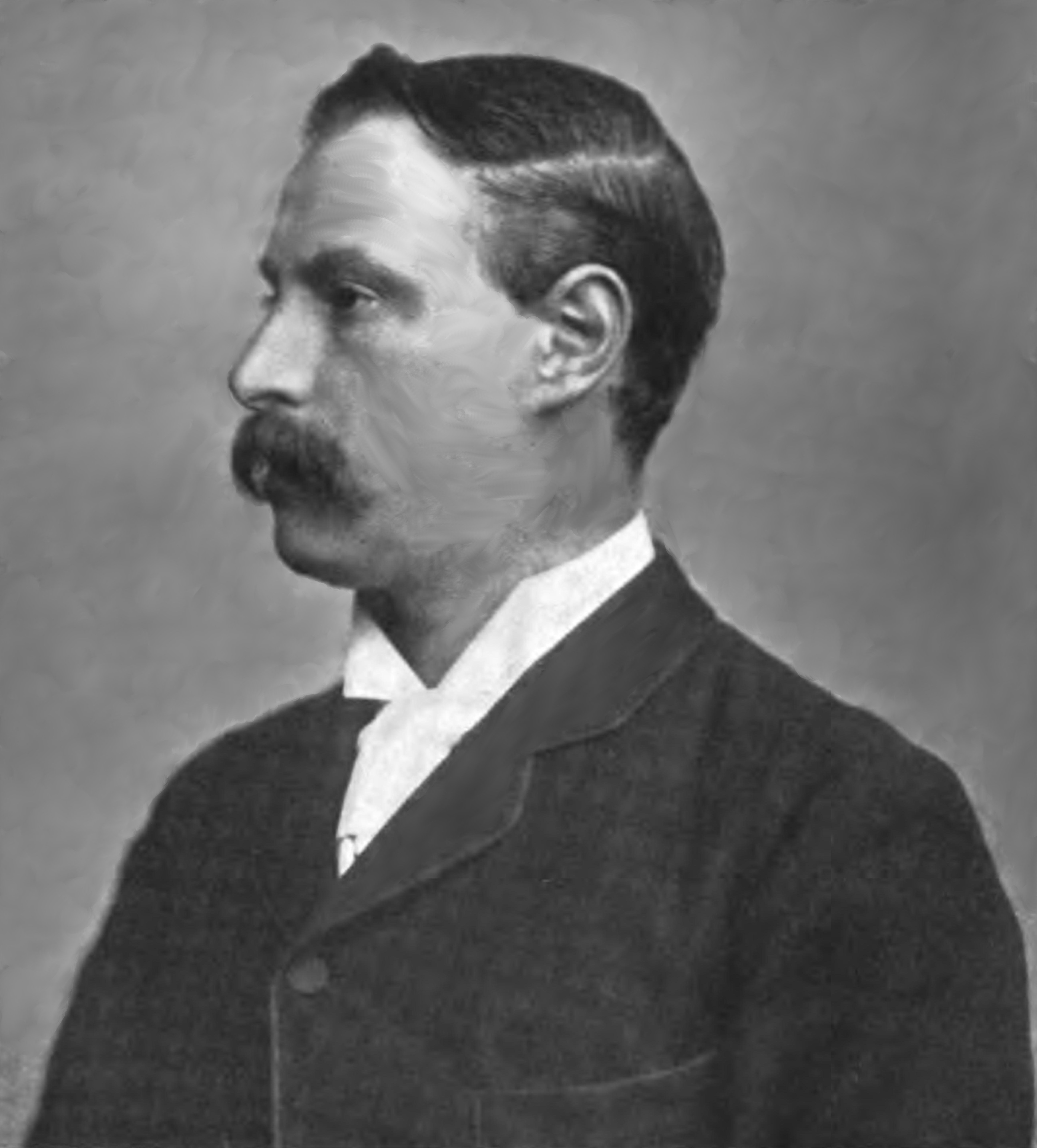 Sir Sidney Lee (5 December 1859 – 3 March 1926) was an English biographer and critic.